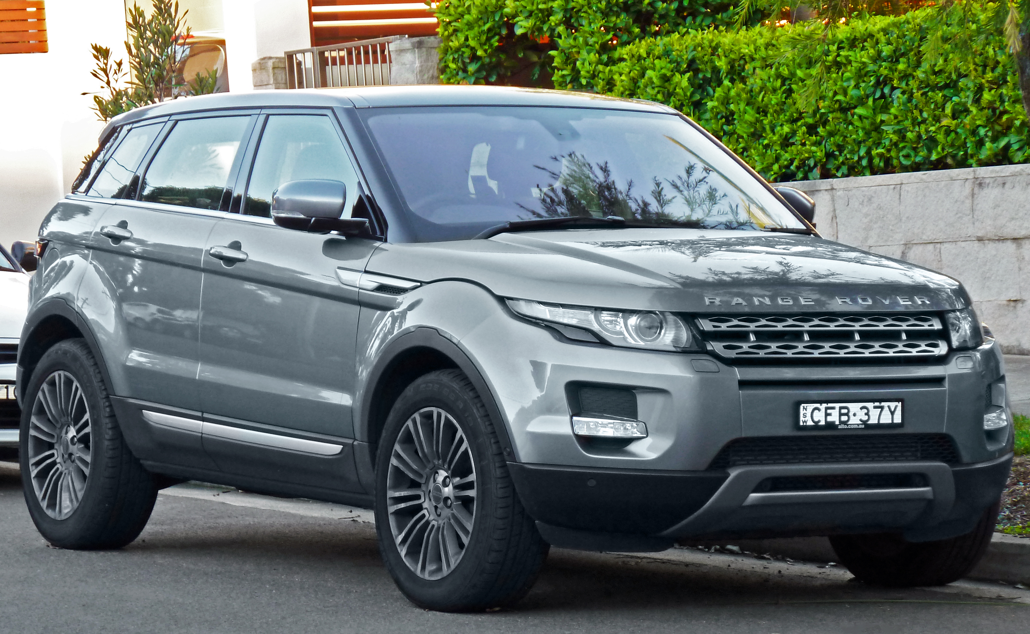 2012 Land Rover Range Rover Evoque (L538 MY12) Prestige 4WD 5-door wagon. Photographed in Rose Bay, New South Wales, Australia.